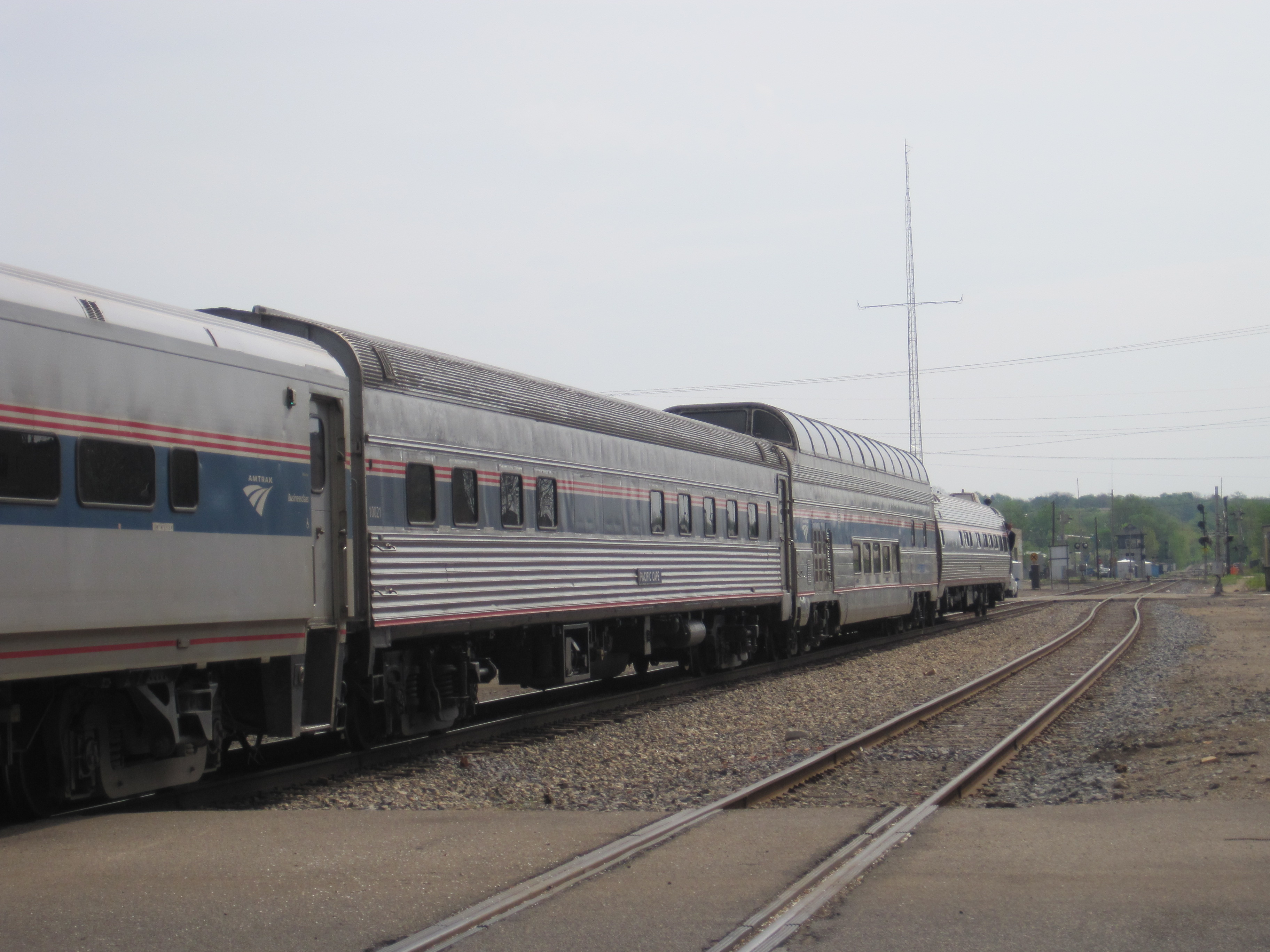 Amtrak #10021 "Pacific Cape", #10031 "Ocean View" and #10001 "Beech Grove" at Kalamazoo on the back of the Blue Water on May 13, 2011.